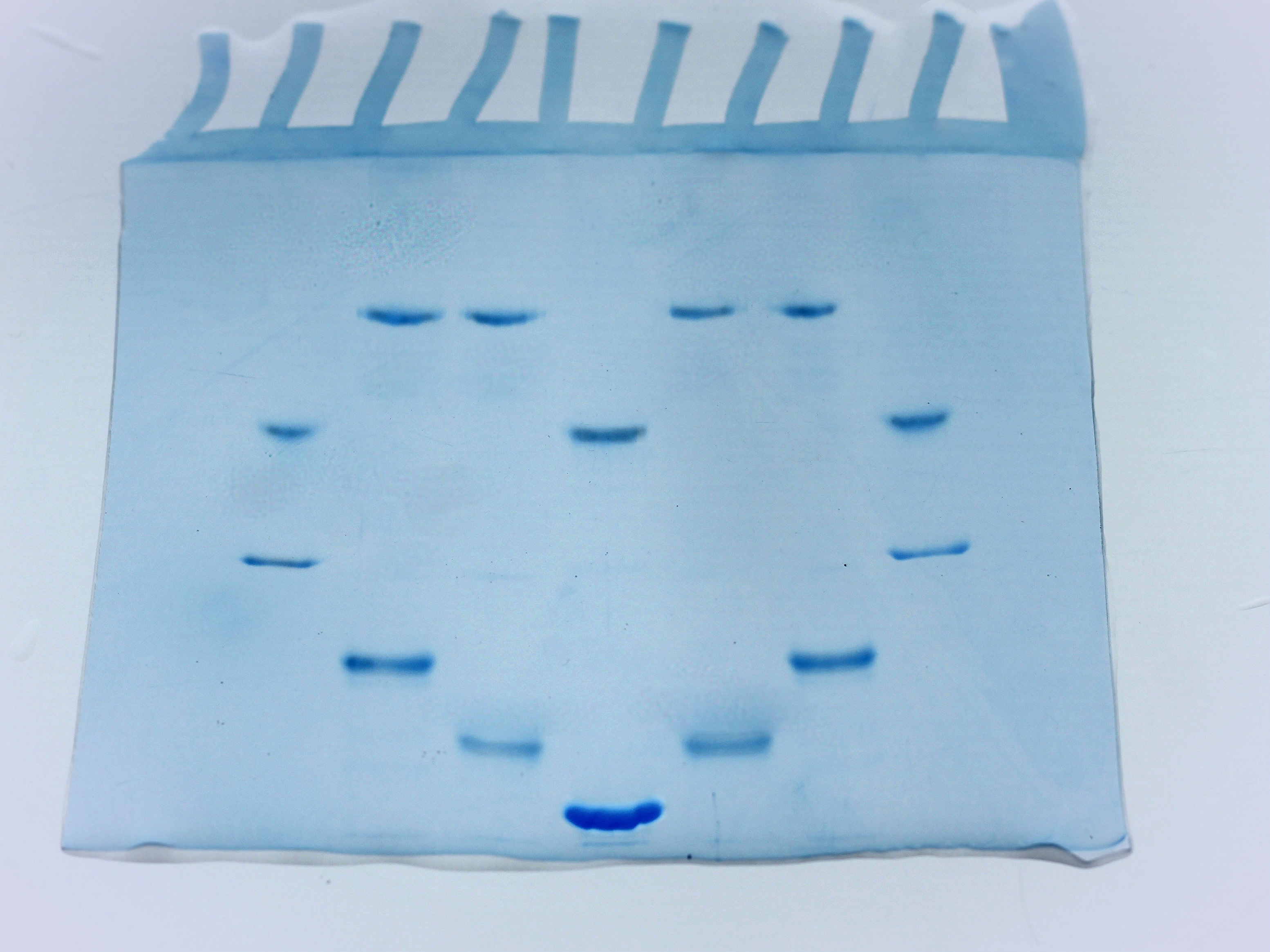 Denaturing polyacrilamide gel-electrophoresis (SDS-PAGE) is the best known method in biochemistry is used to separate proteins according to their size. Proteins on this gel: BSA (66.2 kDa), ovalbumin (45 kDa), TEV-protease (31 kDa), luciferases MLuc39 (23 kDa), MLuc7 (17 kDa) and lysozyme (14.4 kDa).